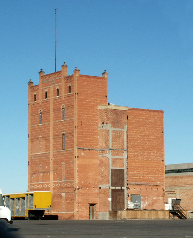 The Southwest Brewing & Ice Co. building in Albuquerque, New Mexico, USA. Photo by User:Camerafiend.